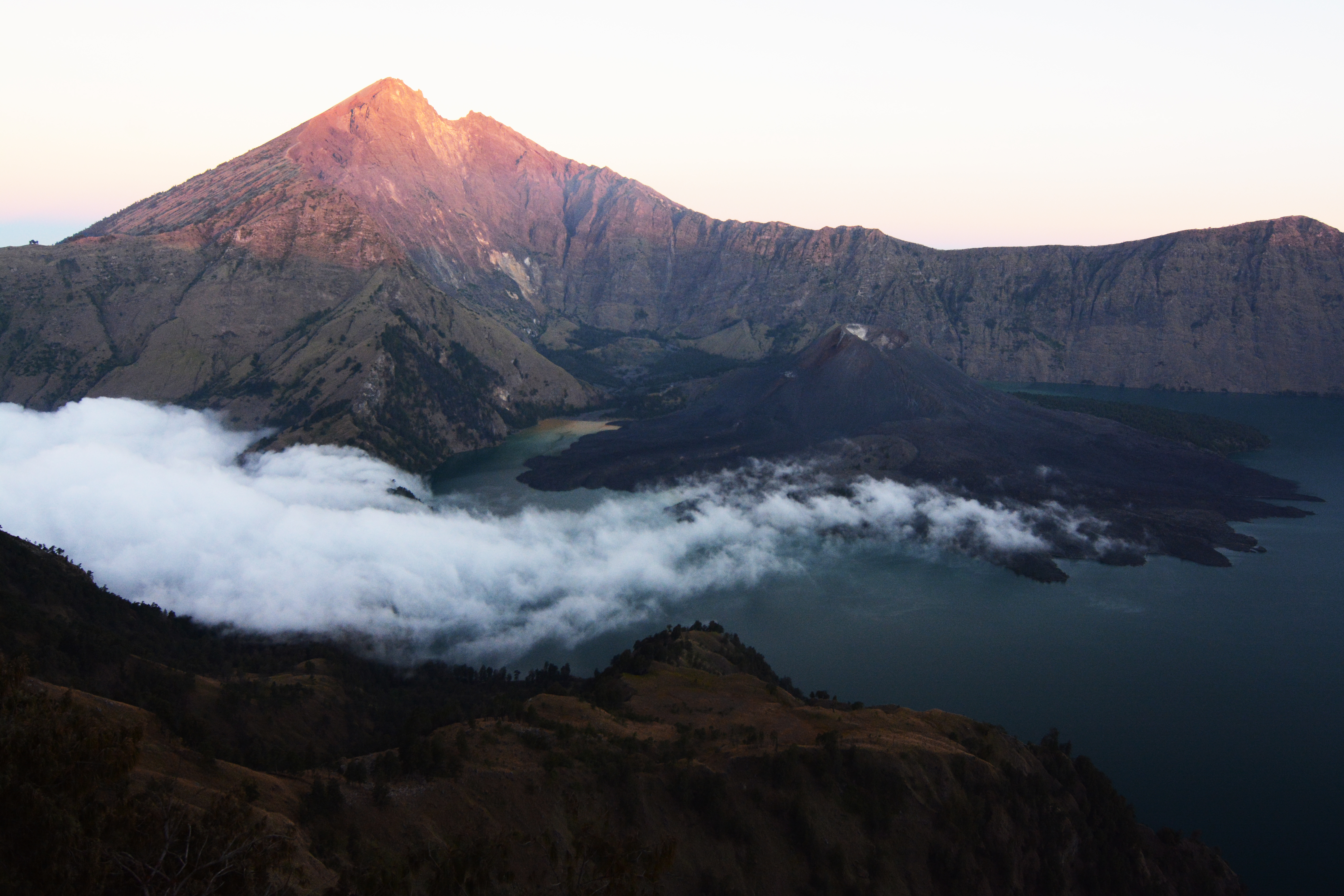 Sunset view from the rim of the Rinjani crater. Lombok, Indonesia